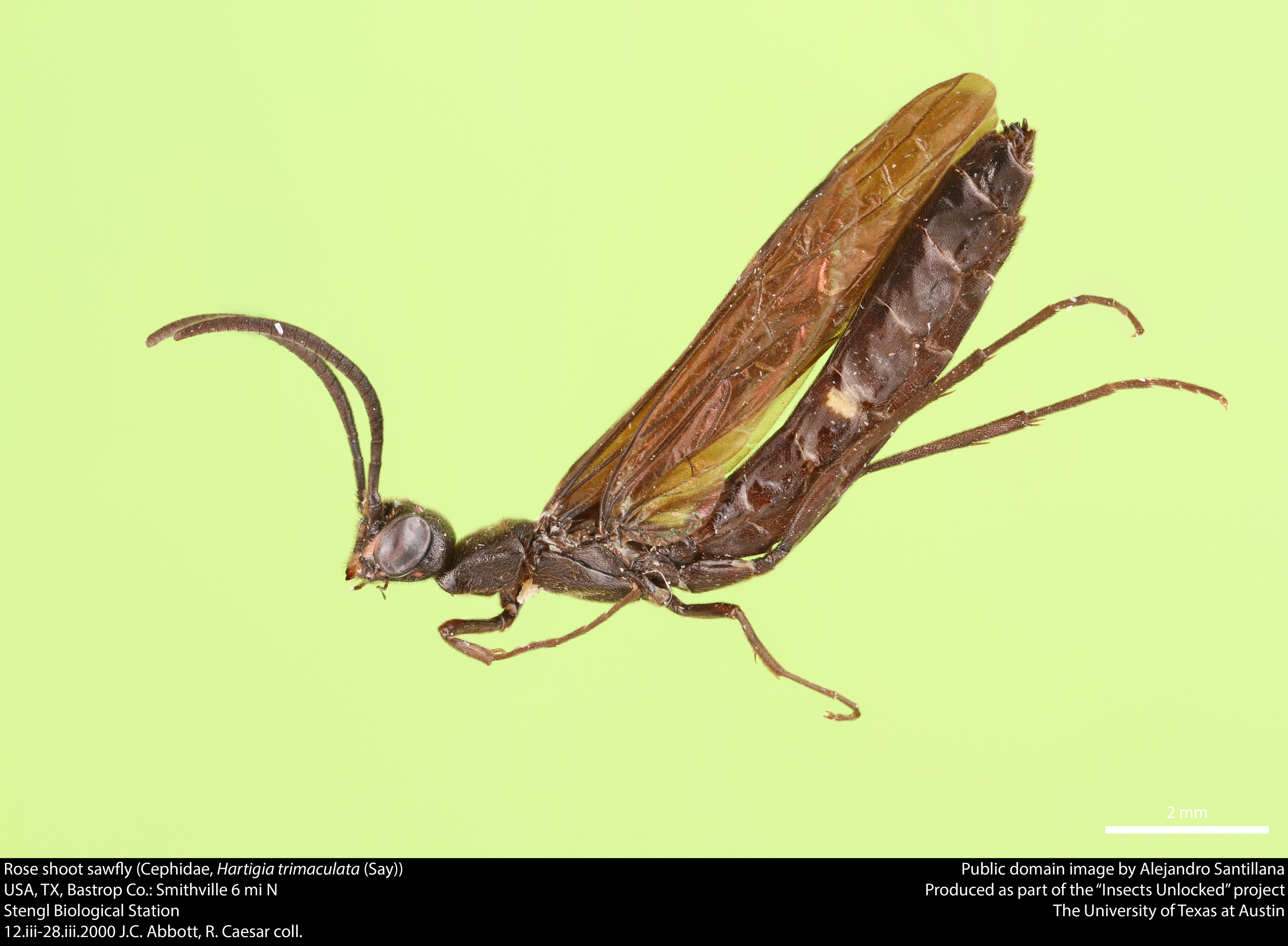 Rose shoot sawfly (Cephidae, Hartigia trimaculata (Say)) USA, TX, Bastrop Co.: Smithville 6 mi N Stengl Biological Station 12.iii-28.iii.2000 J.C. Abbott, R. Caesar coll. This image was created as part of the Insects Unlocked project at the University of Texas at Austin. Based in the UT insect collection at Brackenridge Field Laboratory, part of the Department of Integrative Biology. Do not crop: This image is used on one or more sister projects, where its entire contents are wanted. If you crop it, please save the new image separately, and do not overwrite this one.